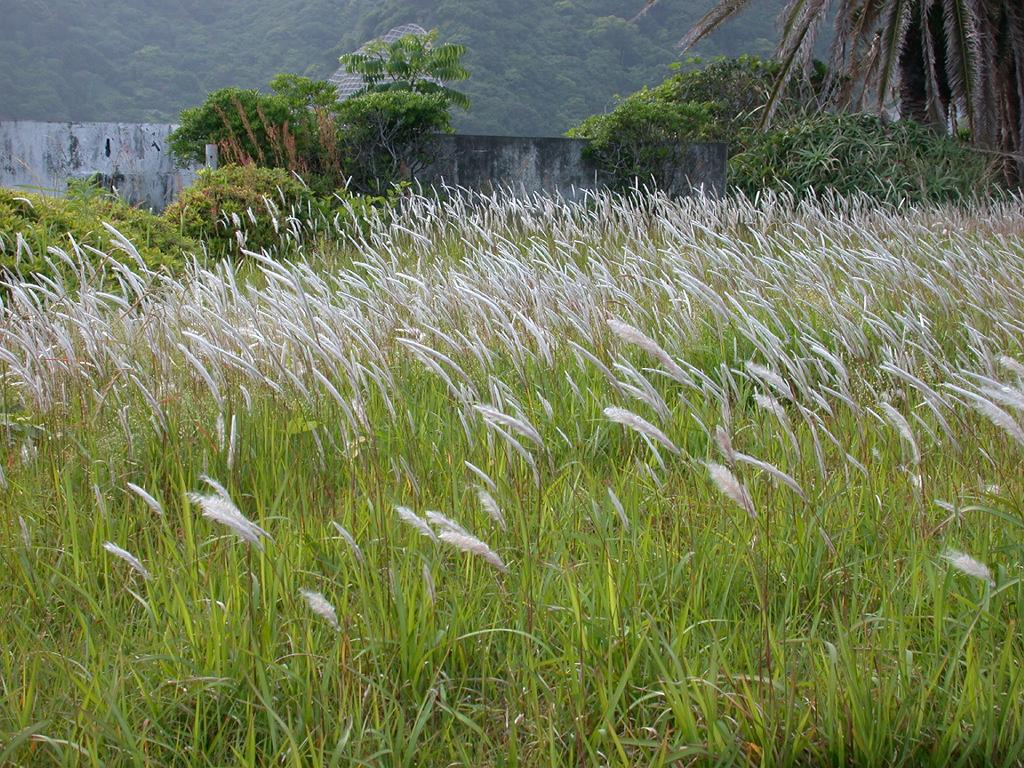 Imperata cylindrica(Poaceae) Japanese name:Tigaya Date;2008,05,18;Susami town, Wakayama prefecture, Japan Author;Keisotyo